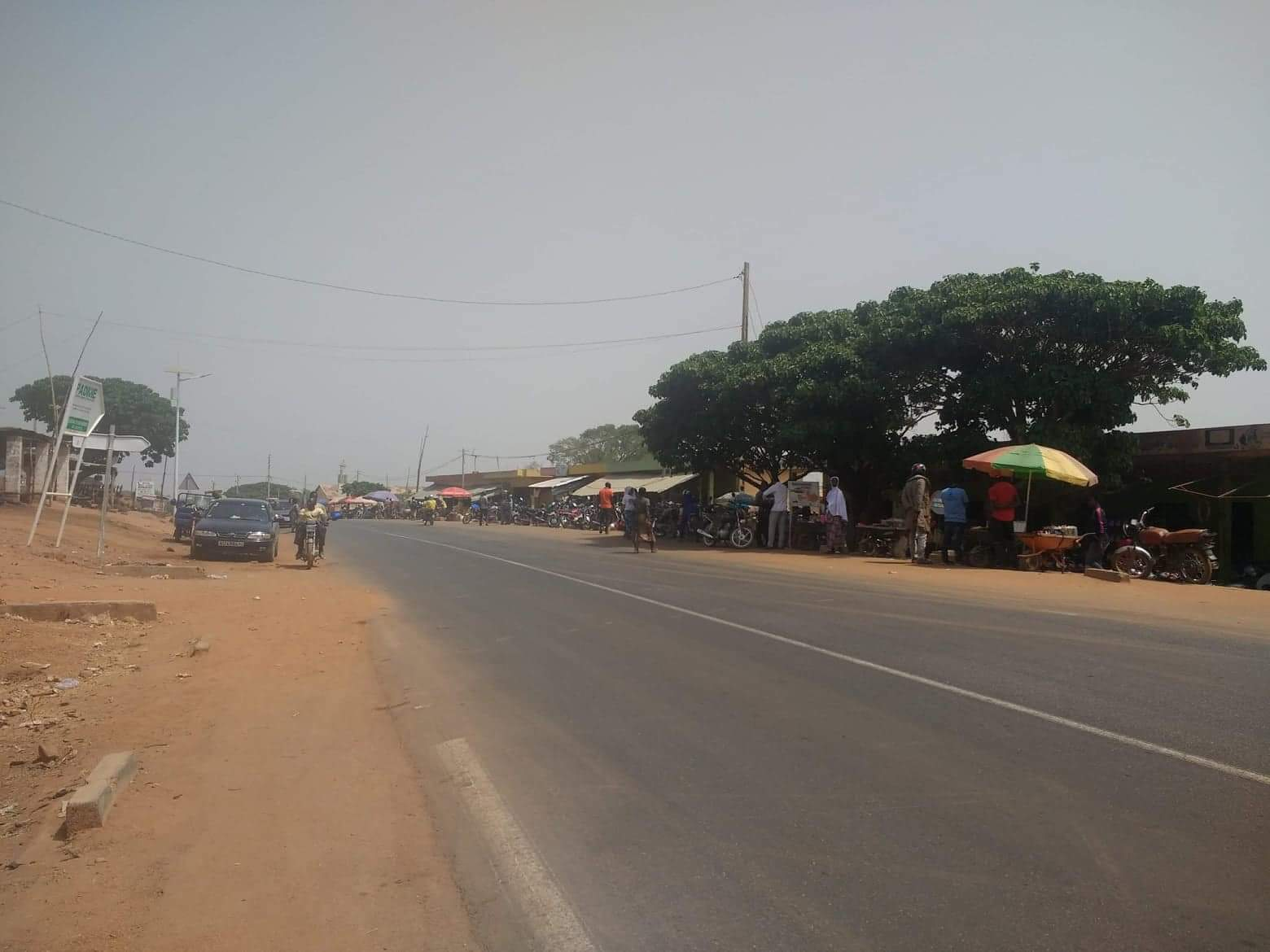 This is an image of the Beninese town of Bembèrèkè taken from the highway.